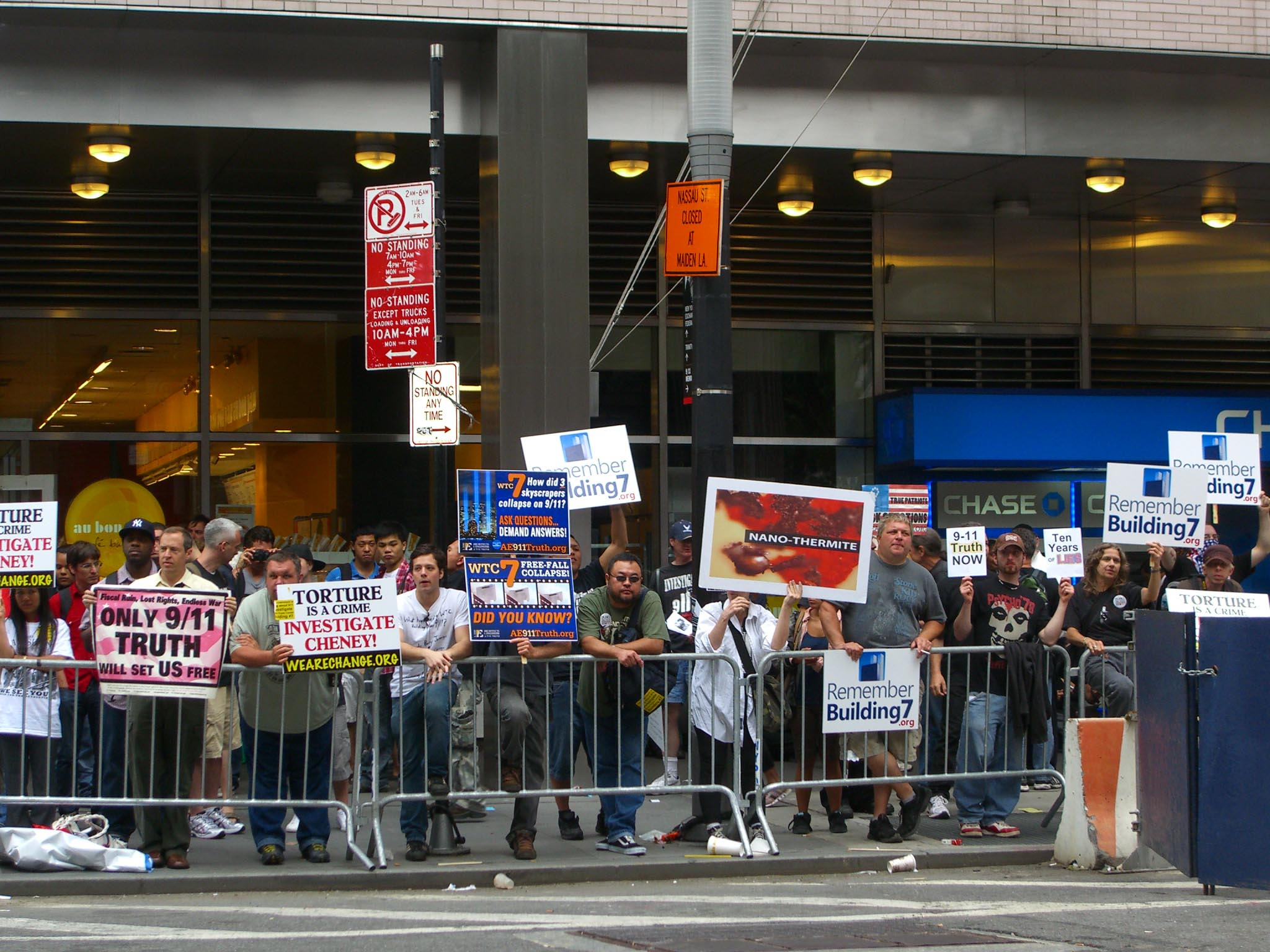 Members of the 9/11 Truth movement and conspiracy theorists on Broadway, across the street from St. Paul's Chapel (a block east from the World Trade Center site), chant and shout on on September 11, 2011, the tenth anniversary of the September 11 attacks. Photographed by Luigi Novi. This photo is not in the public domain. It may, however, be used, modified and published for any purpose, free of charge, only if the photographer is properly credited, either by linking the photograph to this page, or with an easily visible credit to the photographer placed near the photo in each instance in which it is used. (See licensing information below.) Publication of this photo without this proper attribution constitutes copyright infringement. If you have any questions, you can contact me on my Wikipedia Talk Page.